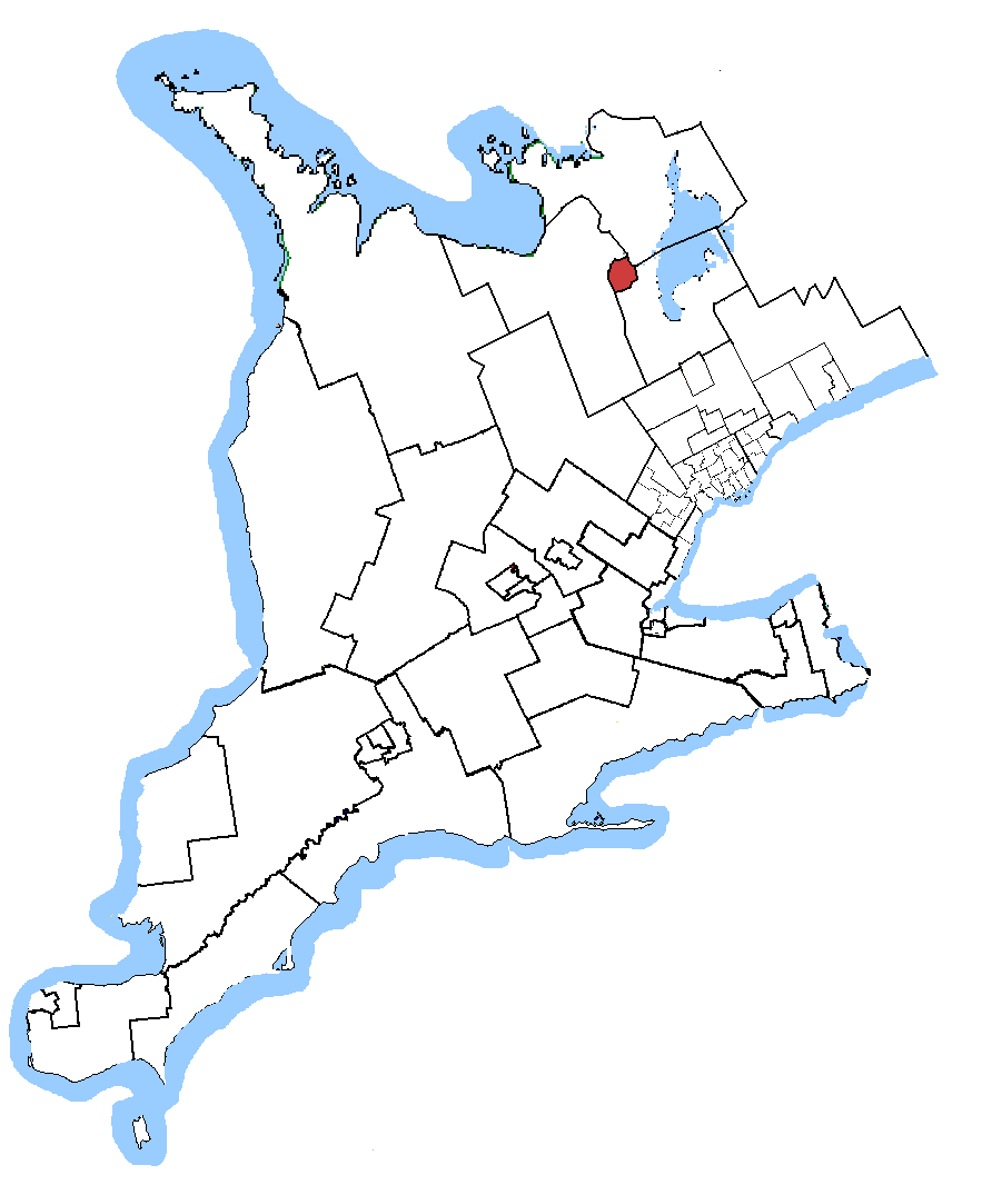 Map of the Barrie electoral district. Based on Earl Andrew's maps, created by SimonP.